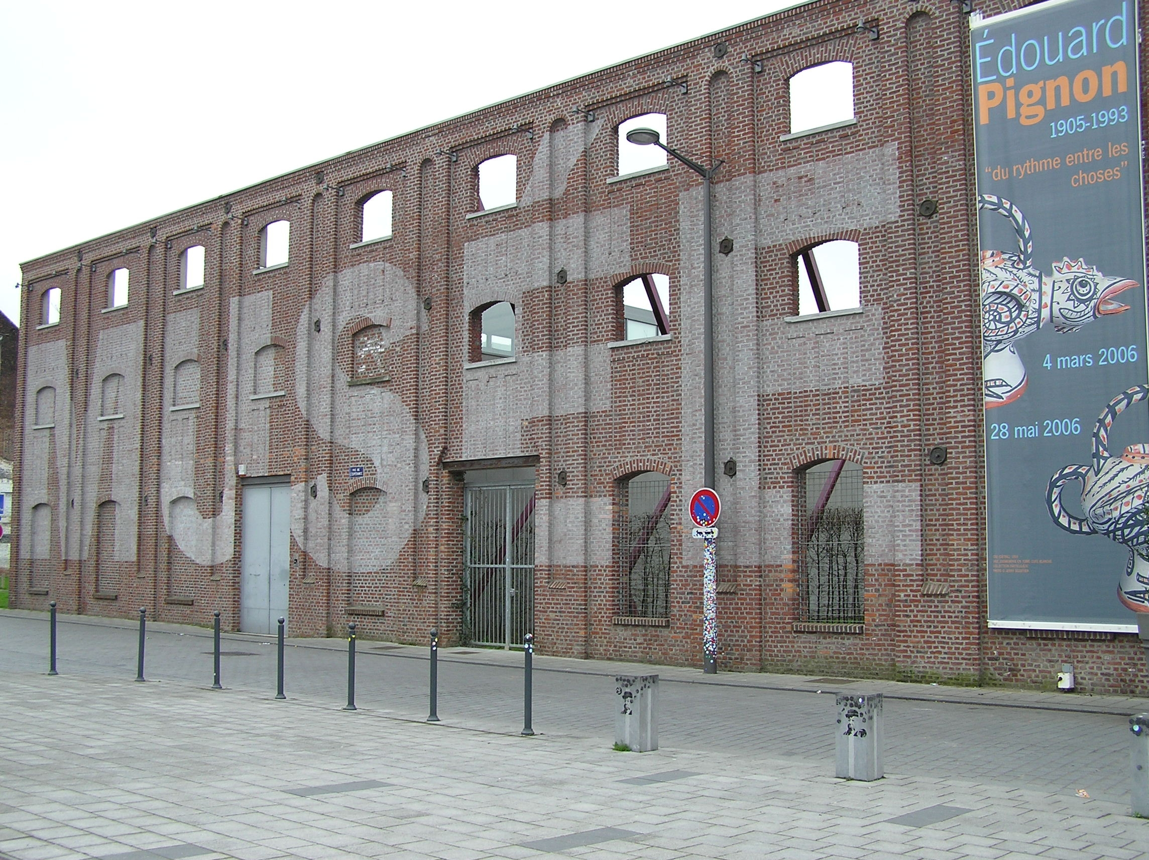 The former pool area of the Musée d'art et d'industrie ("La Piscine") in Roubaix, France.